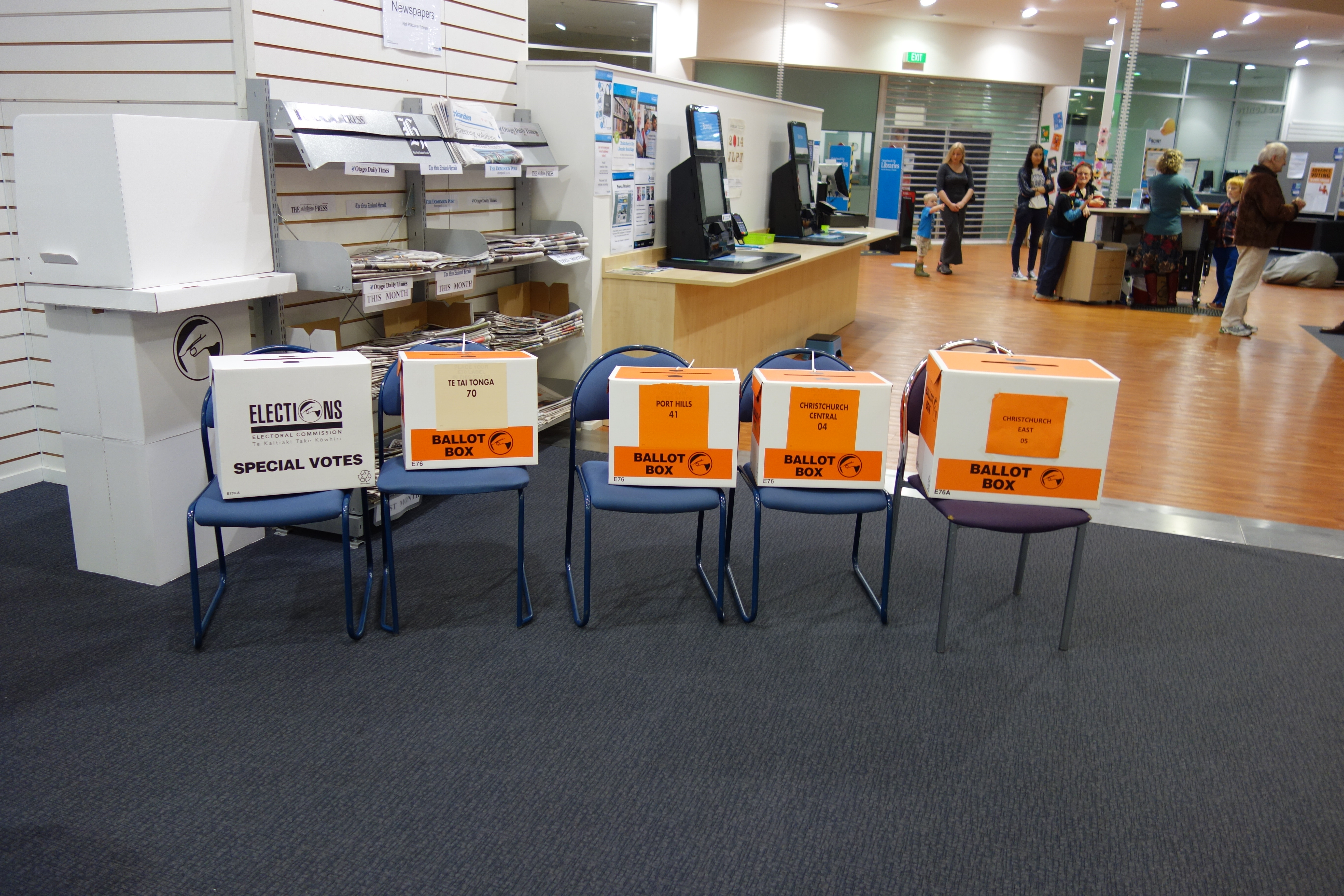 Polling booth Linwood Library